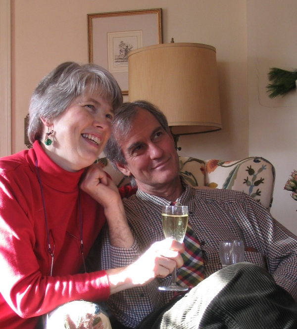 Samuel and Victoria Pickering at their home (December 2003).